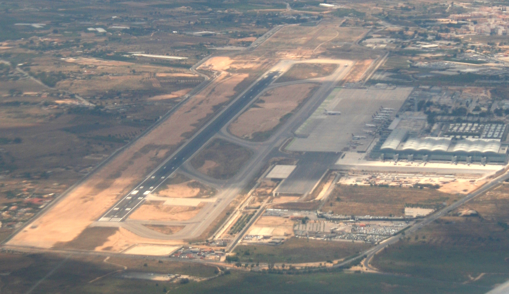 Overview of Alicante airport, Spain.